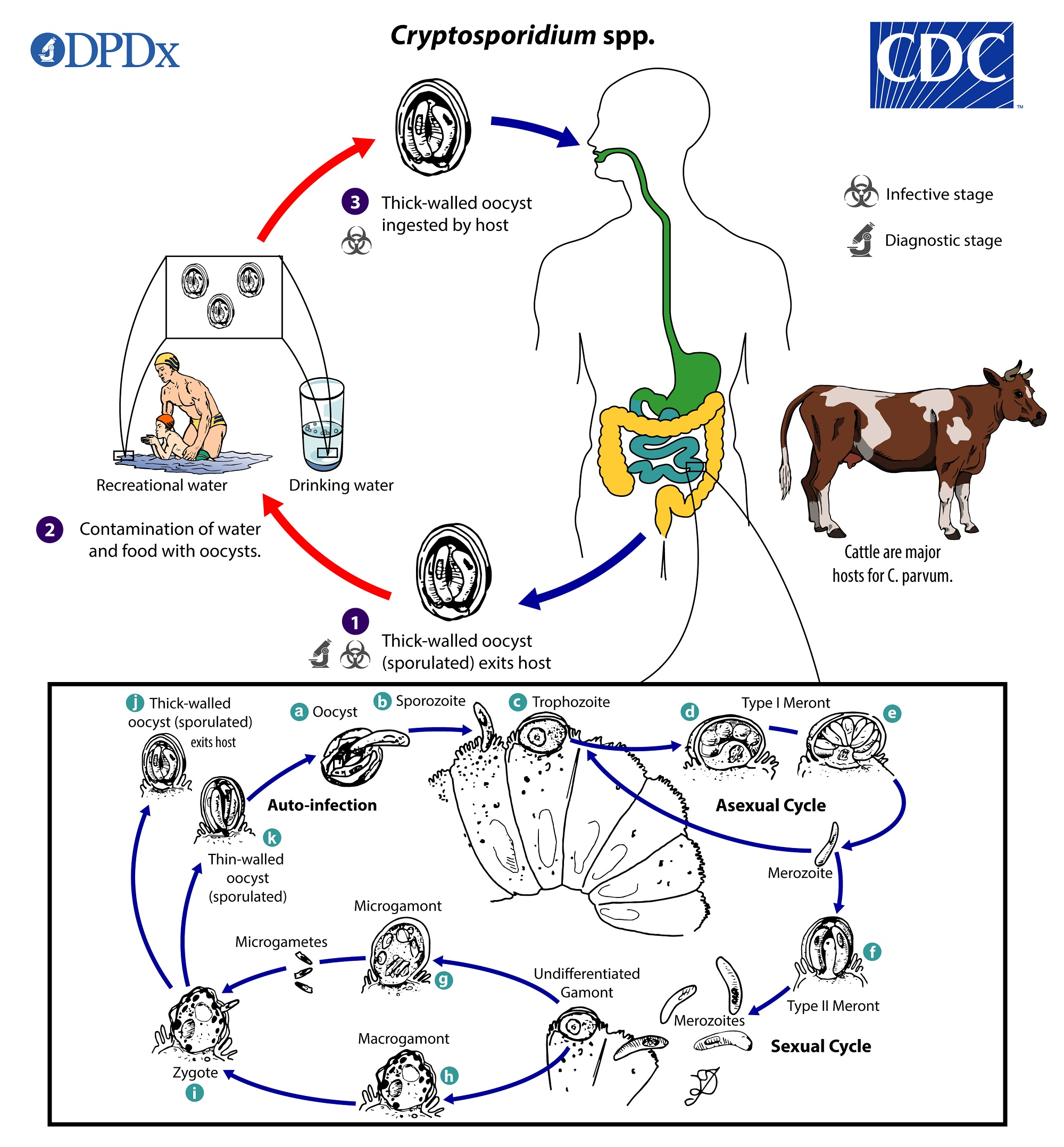 Životní cyklus Cryptosporidií. 1) tlustostěnné sporulované oocysty obsahující 4 sporozoity. 2) voda nebo potraviny kontaminované oocystami. 3) požití nebo inhalace vhodným hostitelem, dochází k excystaci (a). Parazitace na epiteliálních buňkách (b) a (c). Asexuální množení (schizogonie nebo merogonie) (d), (e) a (f). Sexuální množení a produkce microgamonty (samčí) (g) a macrogamonty (samičí) (h). Oplodnění - vznik zygoty (i). Tenkostěnné oocystyzpůsobující autoinfekci (k). Tlustostěnné oocysty vylučované z hostitele (j).